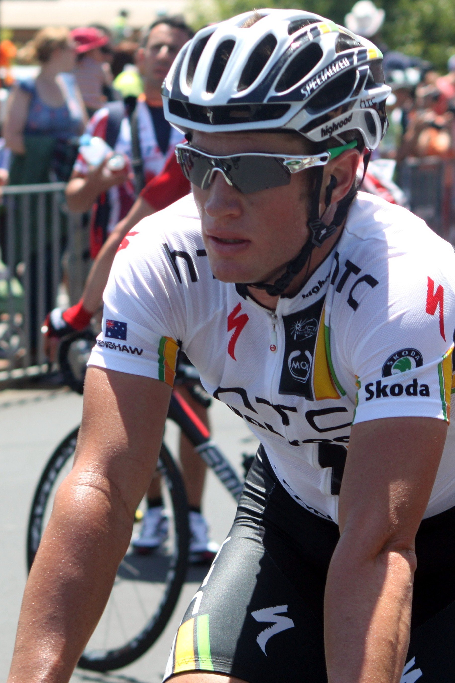 Mark Renshaw finishing in Strathalbyn, in Stage 4 of the 2011 Tour Down Under.